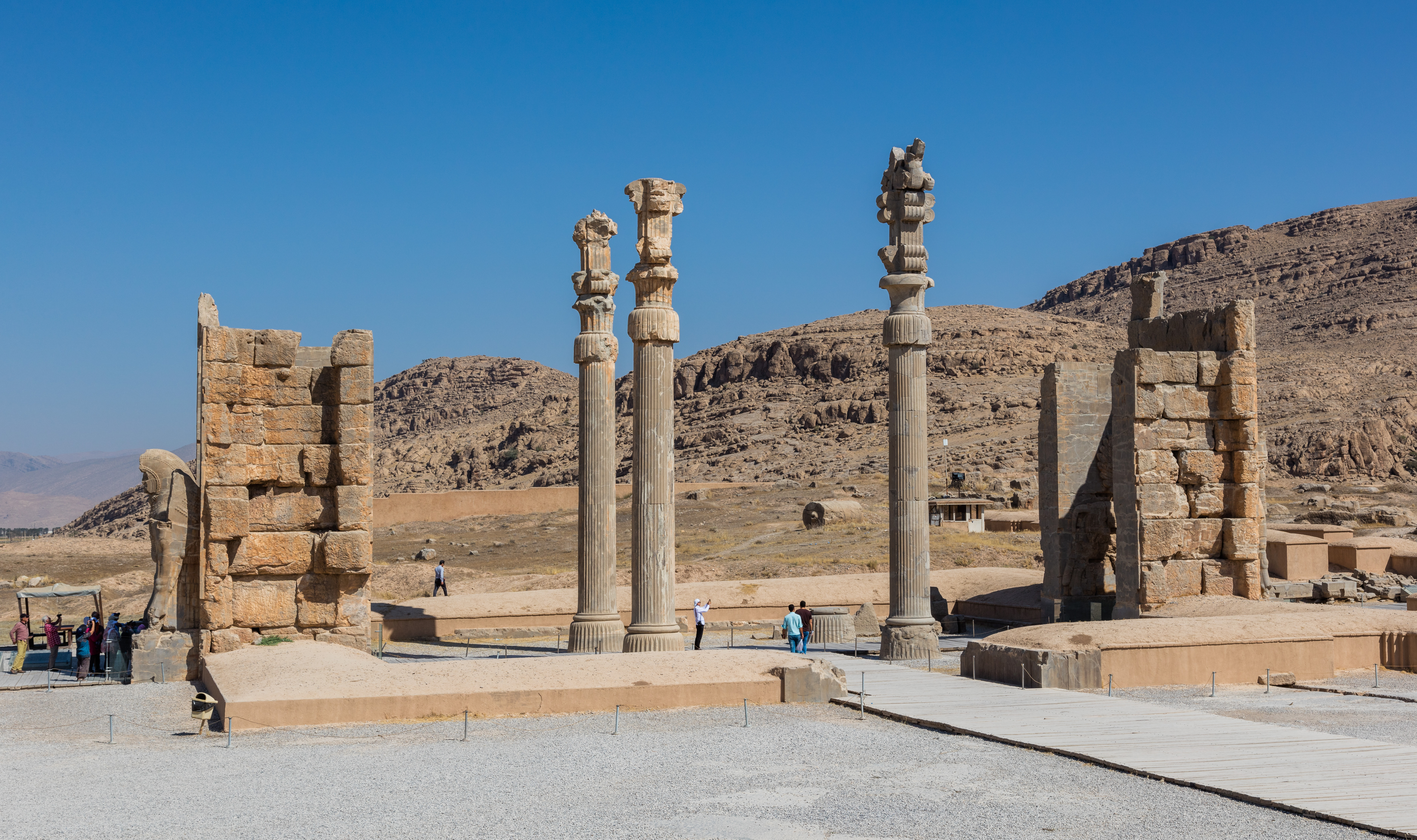 Persepolis, Iran